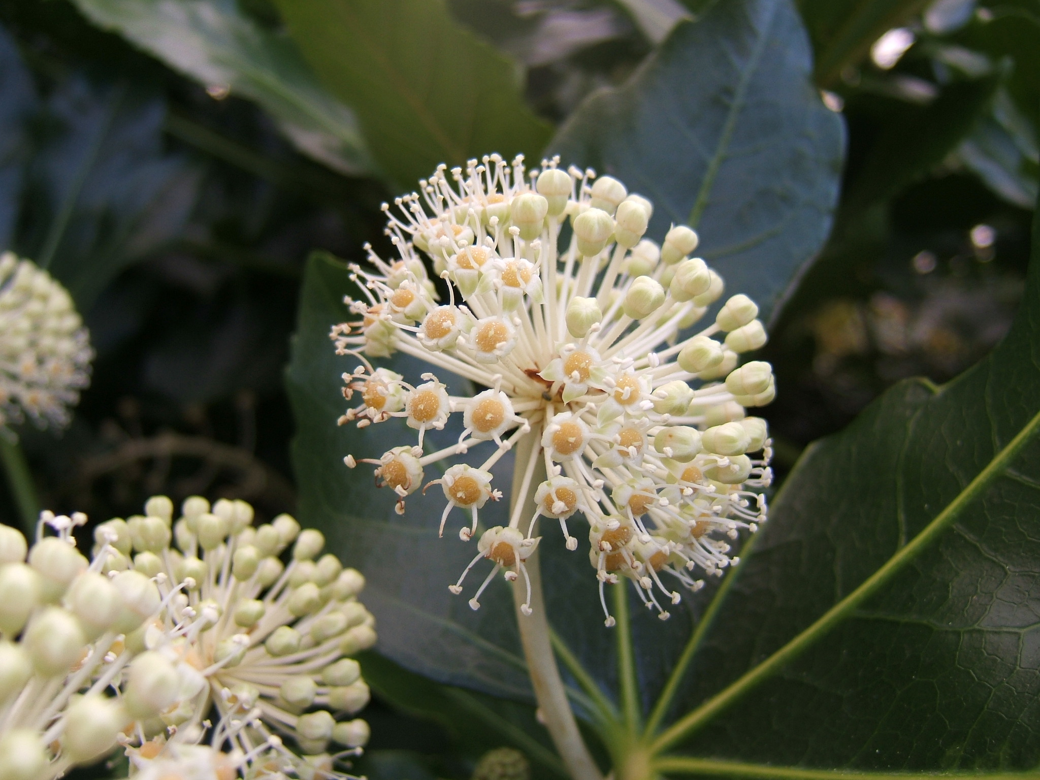 Fatsia japonica close-up of flower umbel, 15 November 2005; cultivated, UK